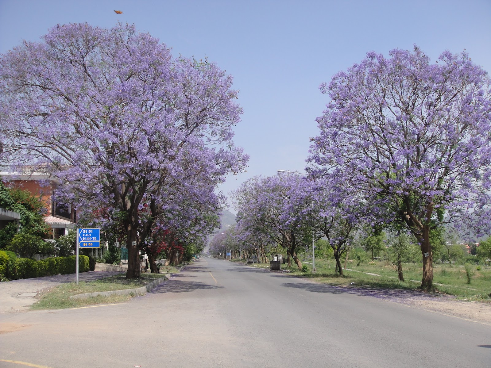 Jacaranda